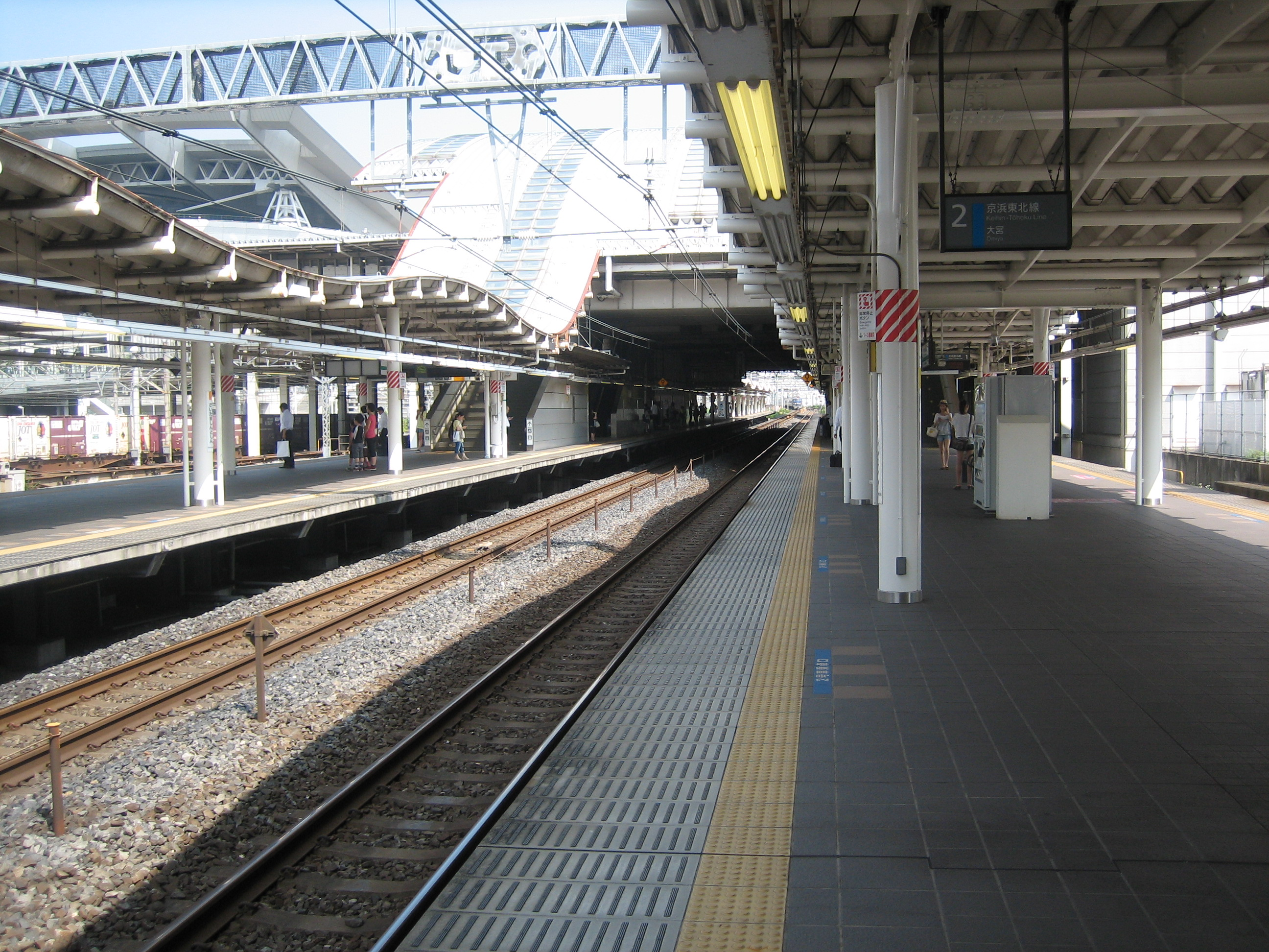 Saitama-Shintoshin Station